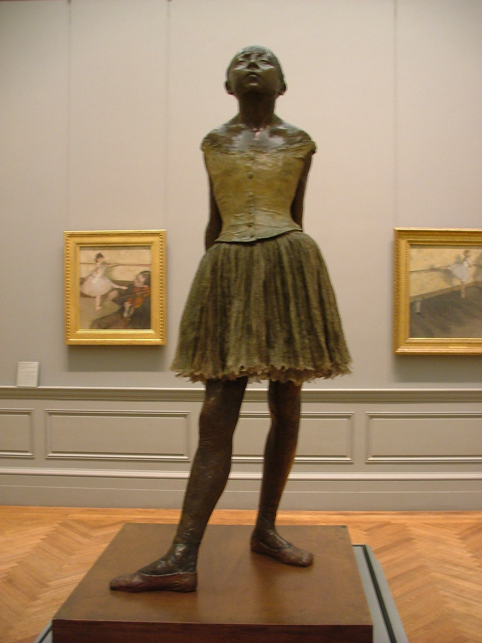 The Little Fourteen-Year-Old Dancer